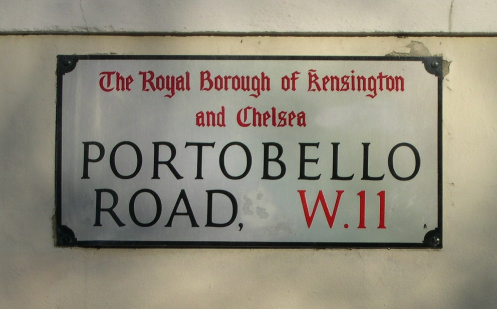 Portobello Road street sign